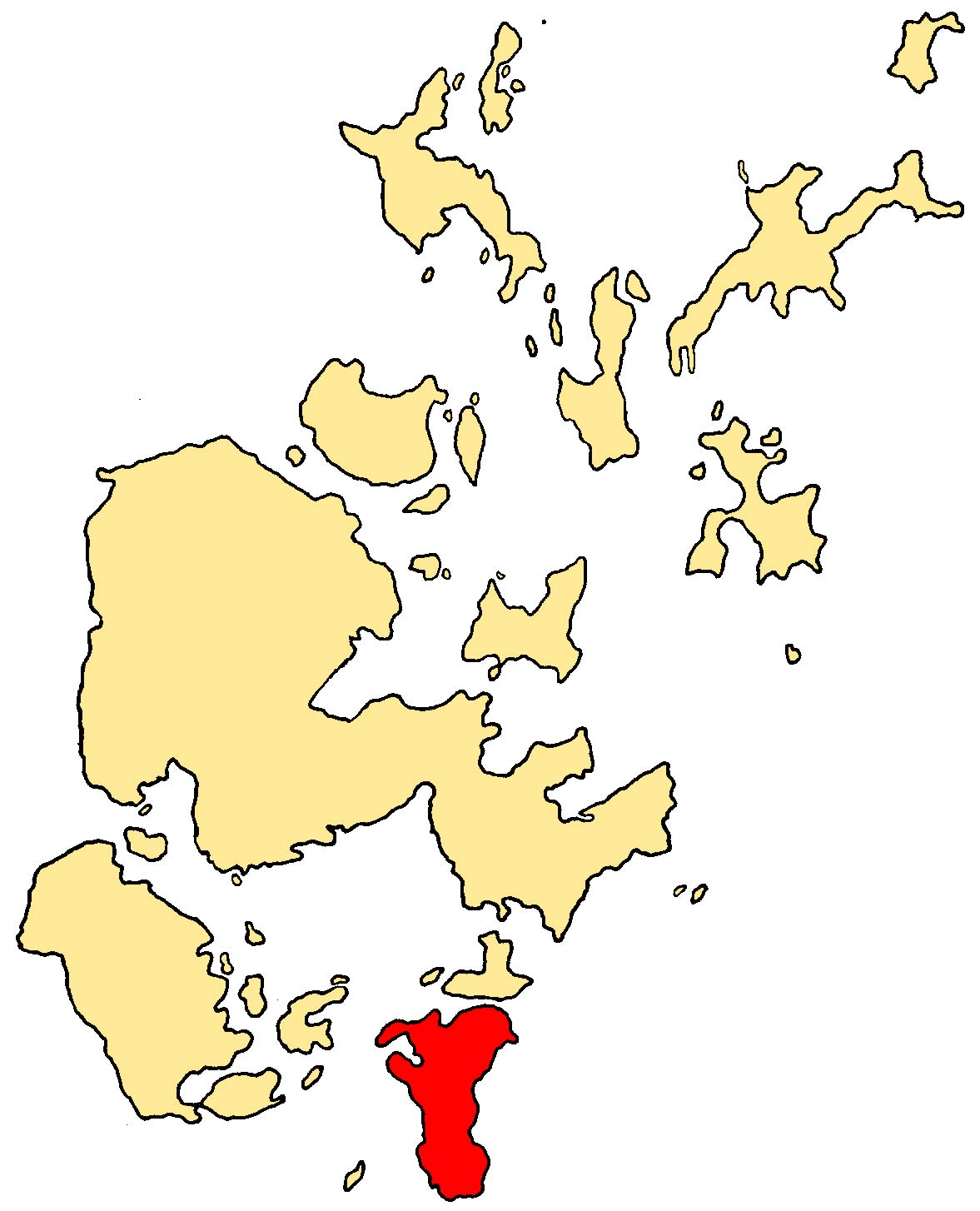 South Ronaldsay